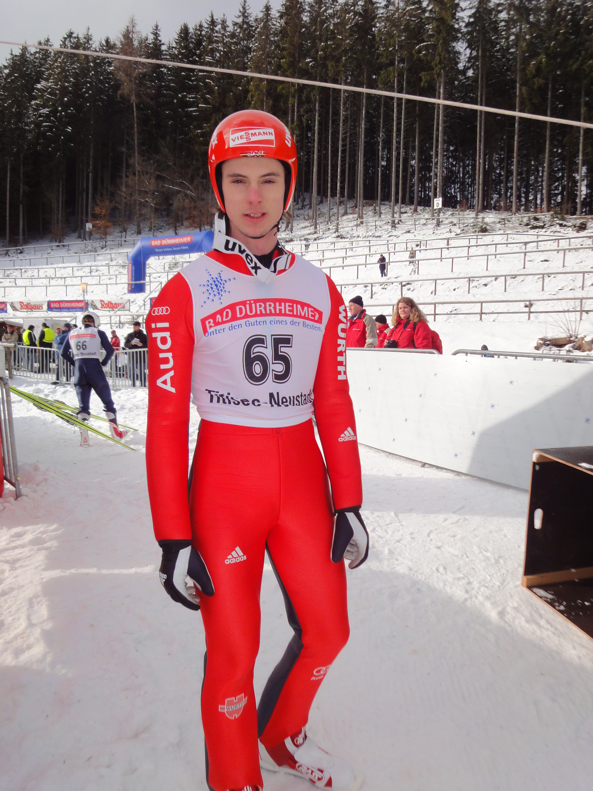 Andreas Wank: the photo was taken during Saturday's competition of 2011's Continental Cup event at the Hochfirstschanze in Titisee-Neustadt